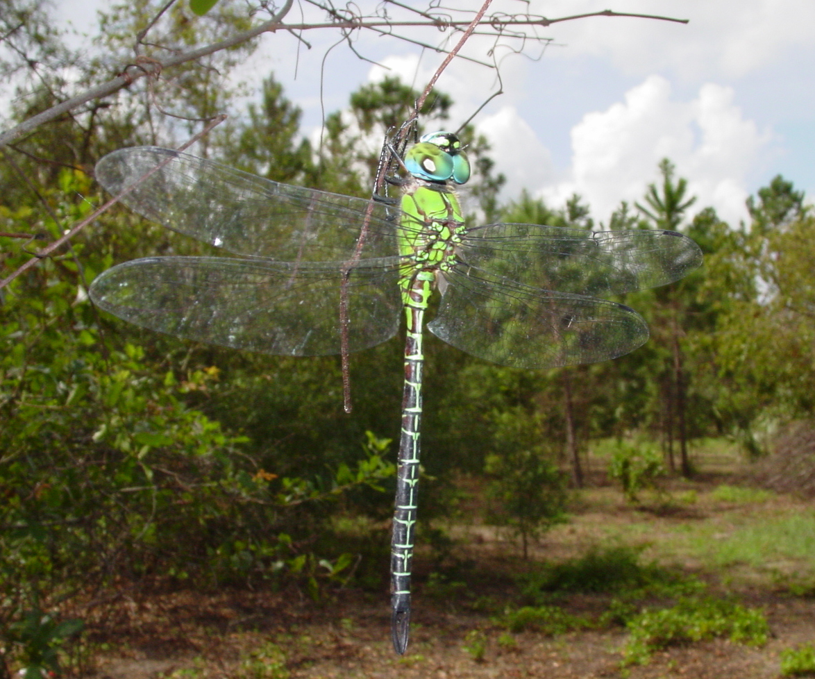 Coryphaeschna adnexa, Blue-faced Darner, Turkey Lake Park Orlando, 10-9-04